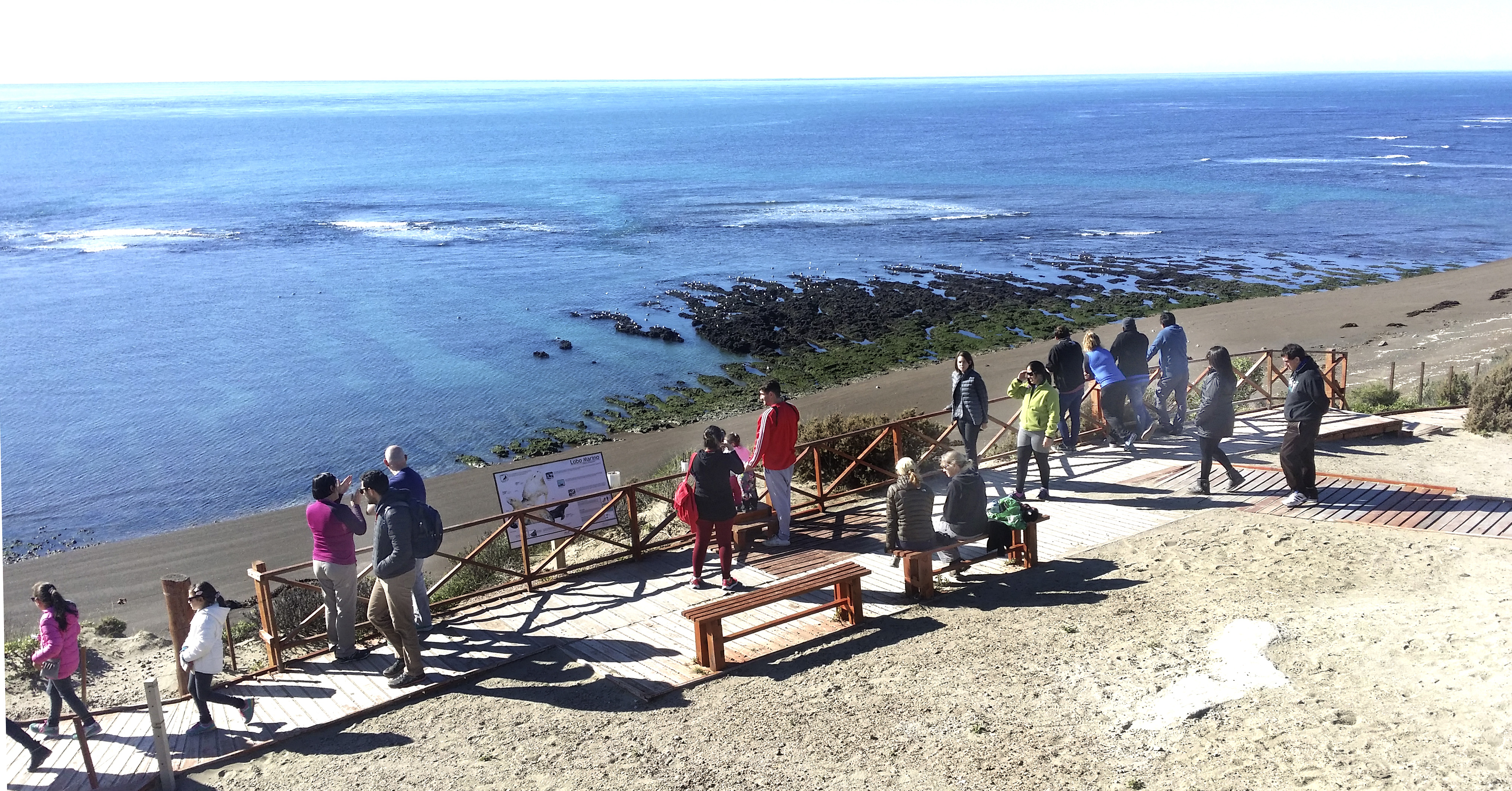 20170423. The viewing point in Punta Norte, Peninsula Valdes, Patagonia, Argentina. This is area is rich with marines such as sea lions, sea elephants, orcas, sea birds.Photo by: Jan Fleischmann